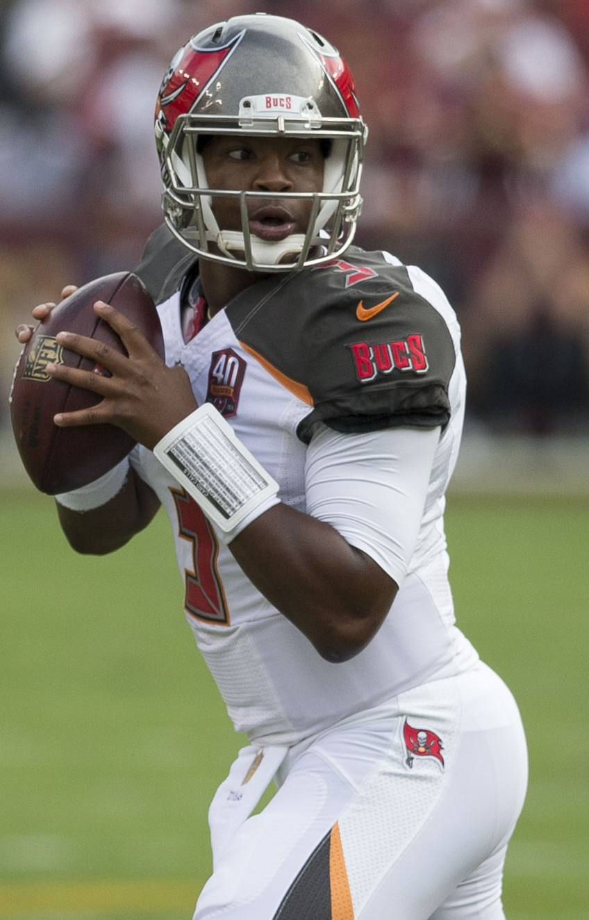 Buccaneers at Redskins 10/25/15